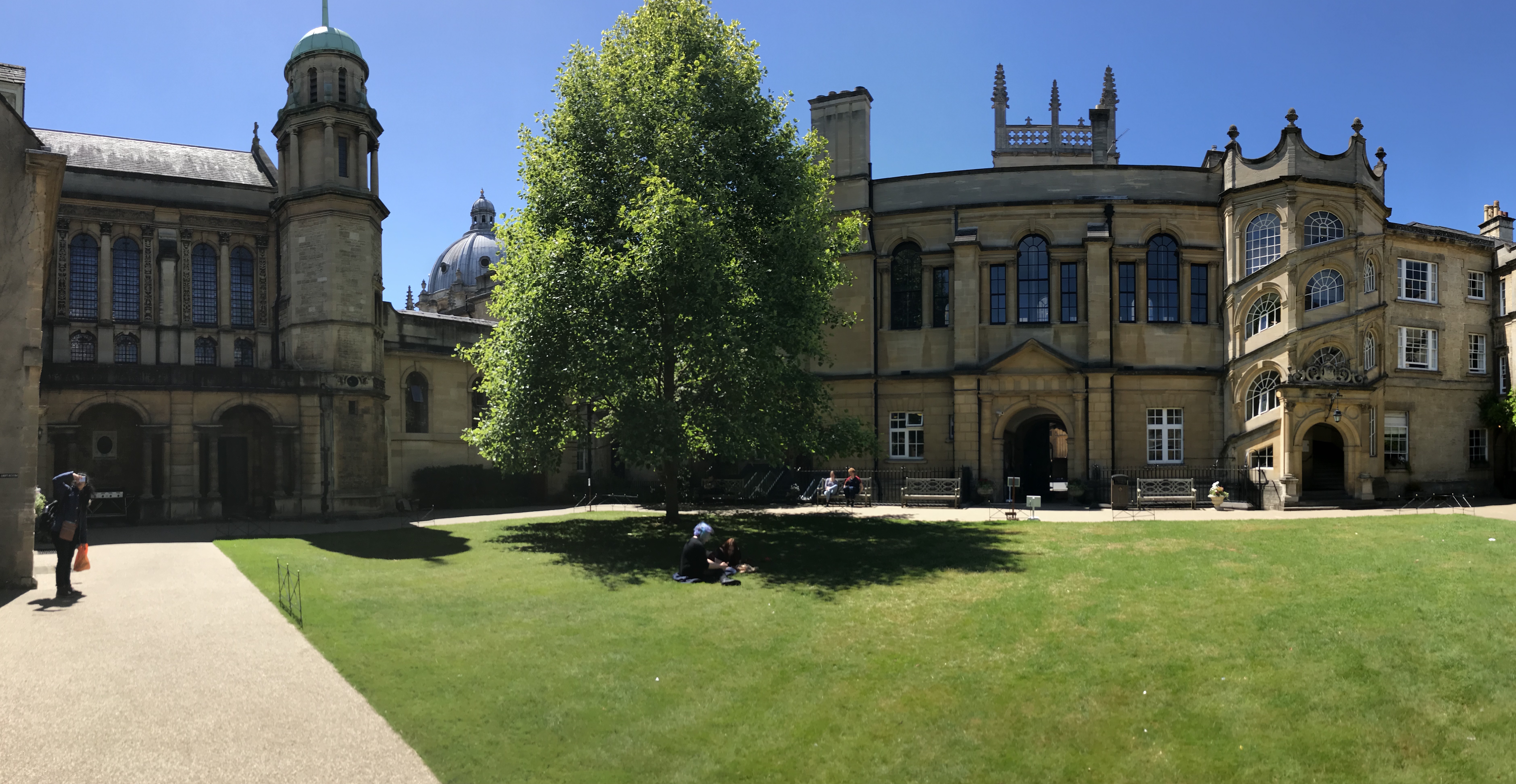 Hertford College, Oxford